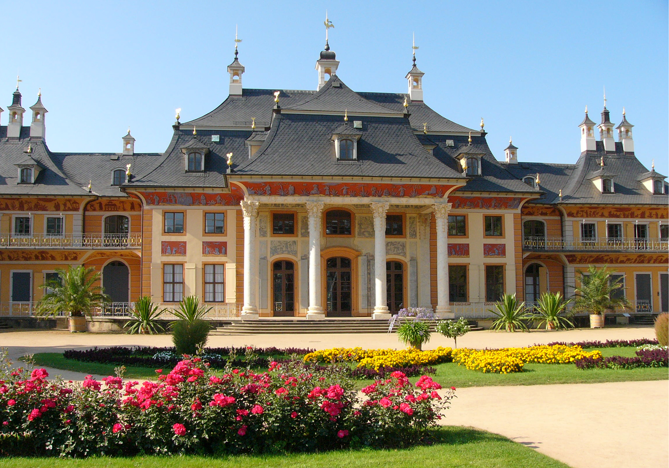 Pillnitz Castle is situated on the eastern bank of the Elbe River in Dresden, Saxony, Germany.